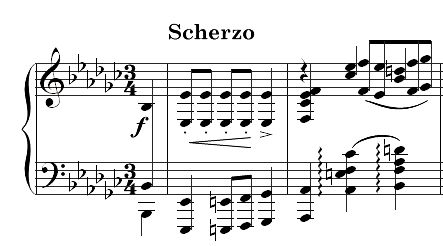 Frédéric Chopin's Piano Sonata No. 2 in B-flat minor, Op. 35 - II. Scherzo